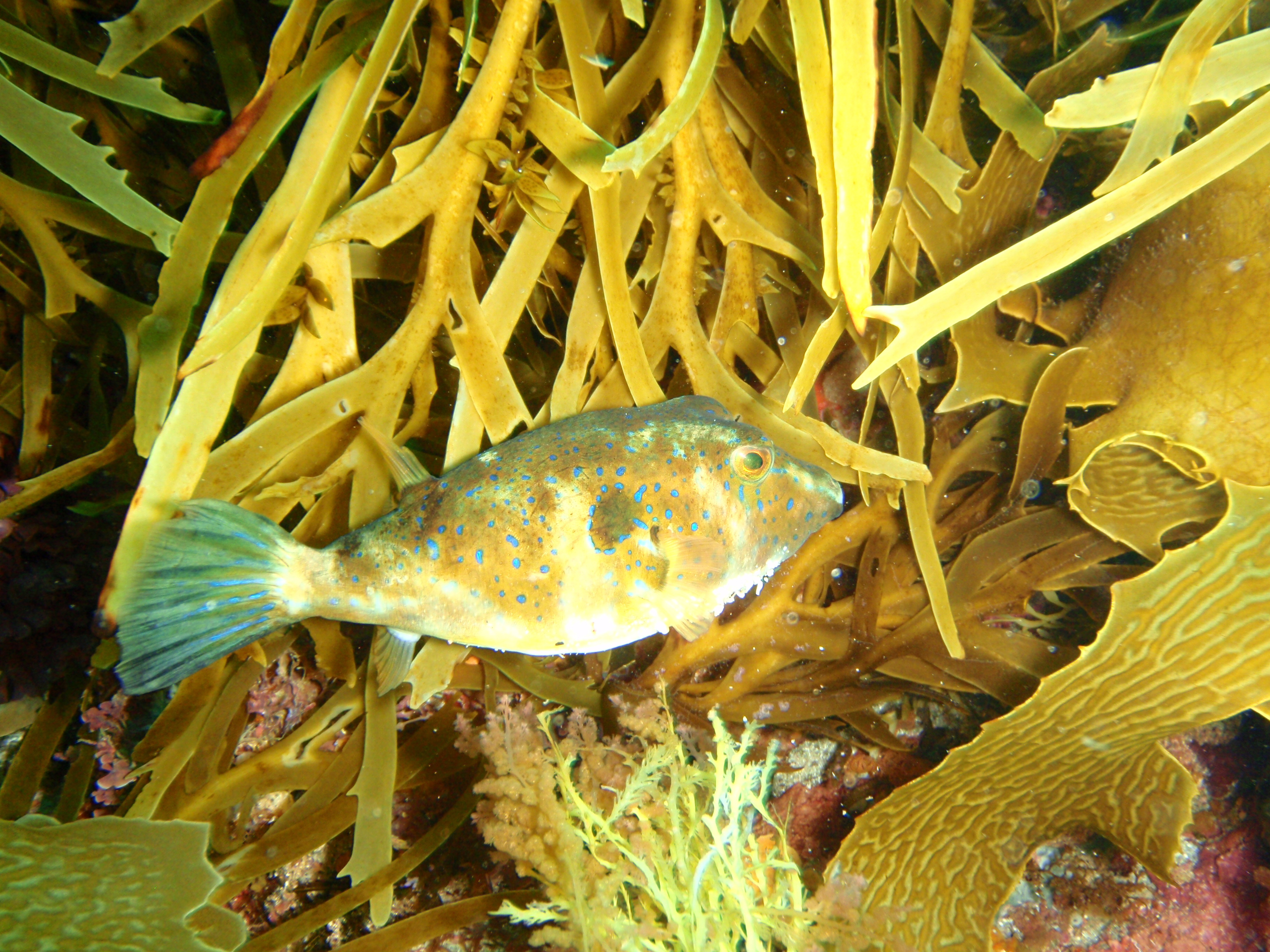 Bluespotted toadfish Omegophora cyanopunctata at North Cove, Bald Island, Western Australia